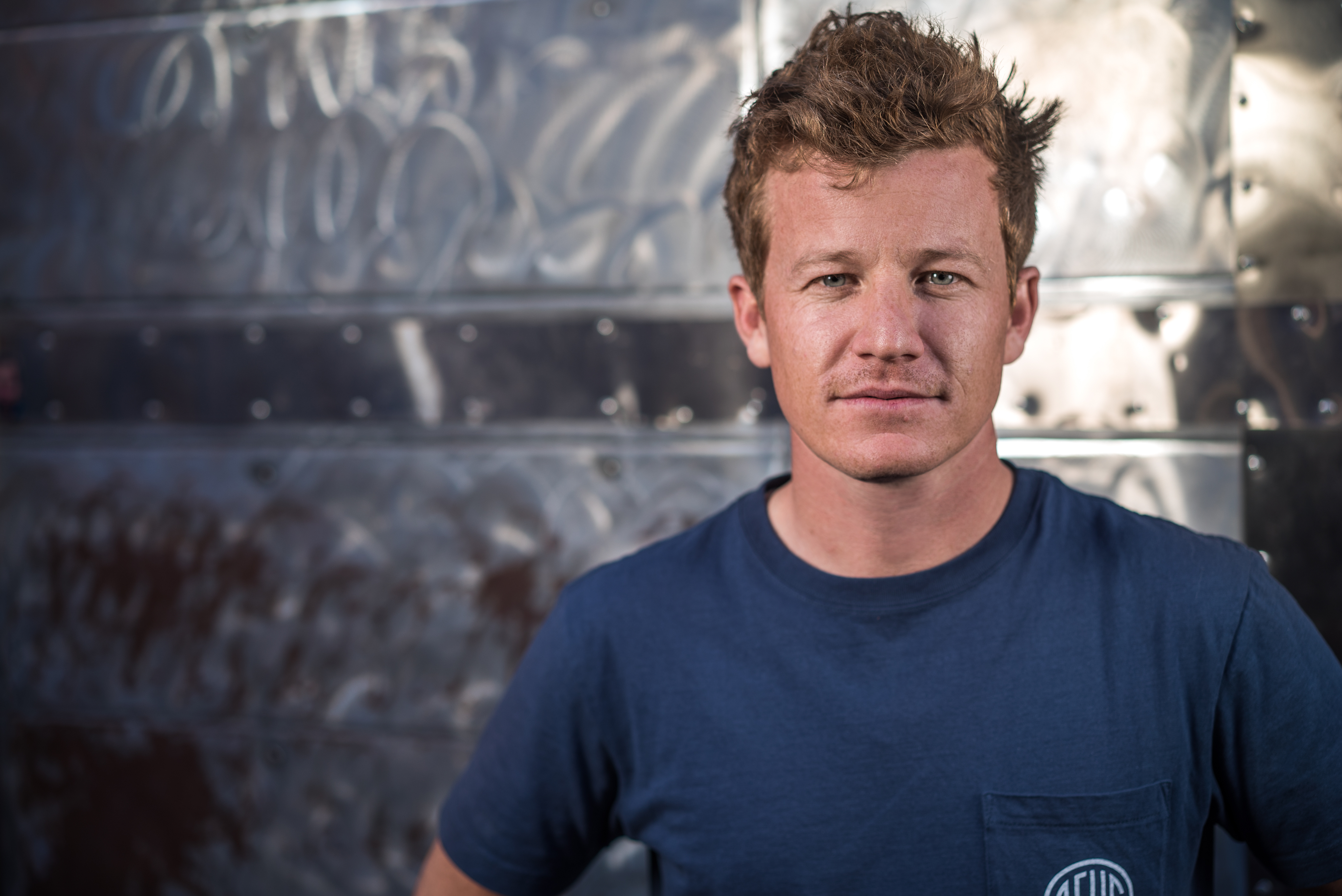 Patrick Long, a professional racing driver and one of 10 Porsche factory racing drivers, and the only American to hold that distinction.